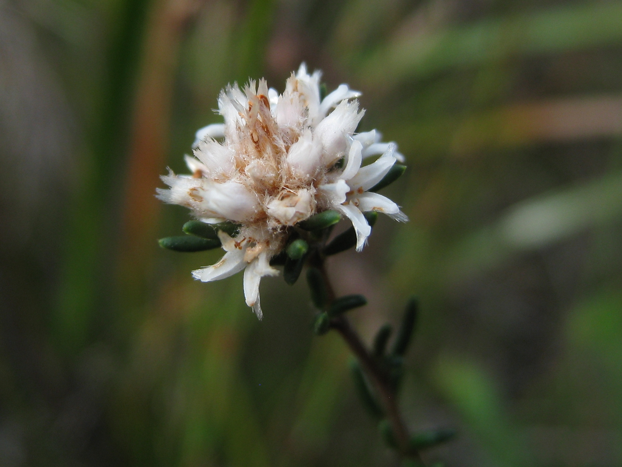 The flower reminds me a little of a Grevillea. This is Cryptandra ericoides - not a Grevillea. Royal National Park, NSW Australia, March 2011.